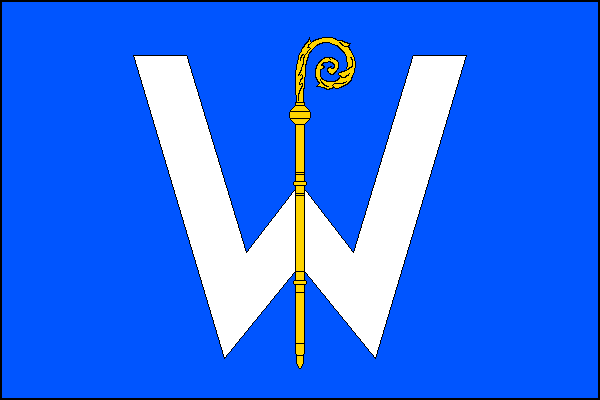 Municipal flag of Hnanice village, Znojmo District, Czech Republic.